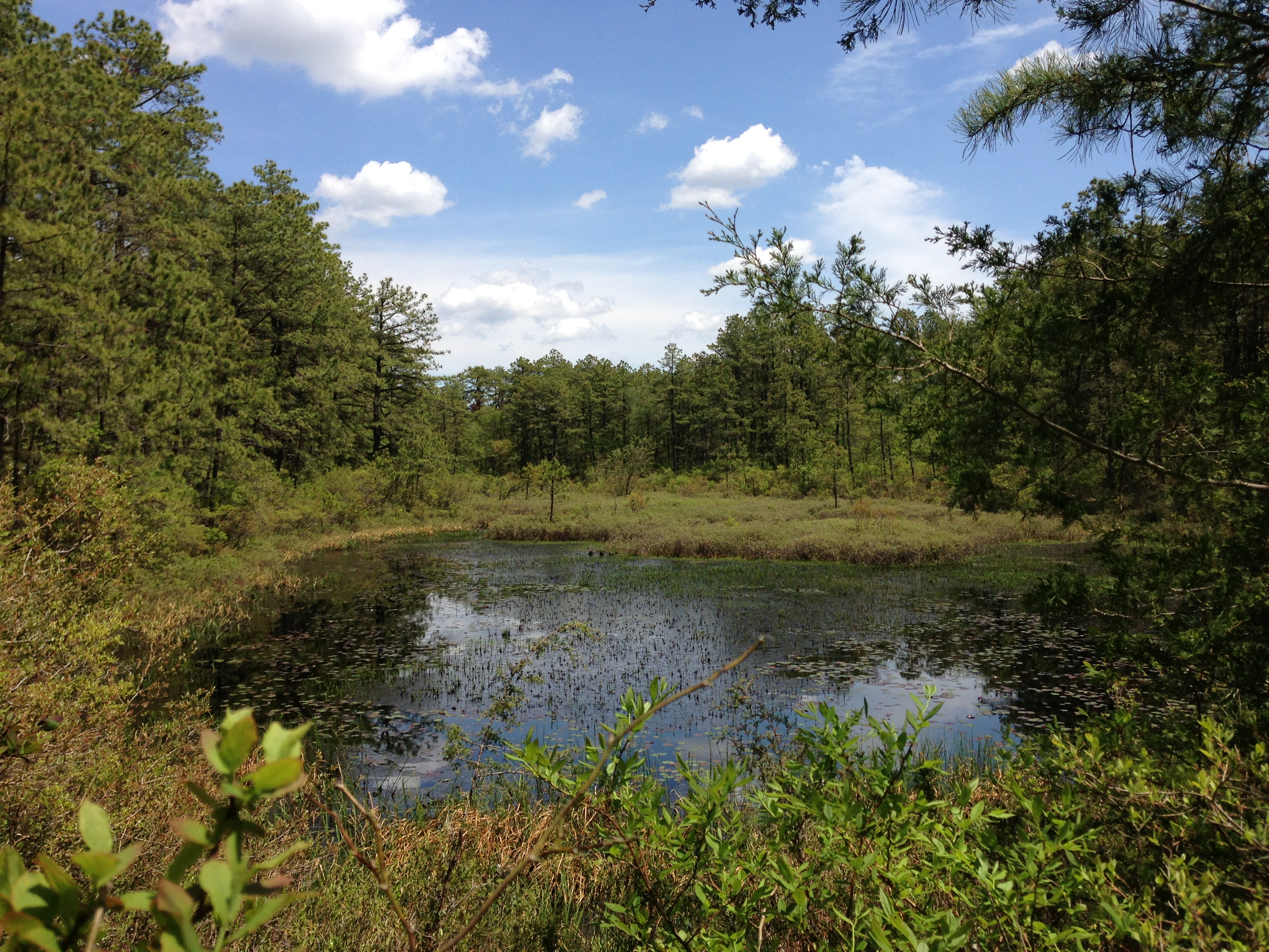 Cranberry bog along the Mount Misery Trail in Brendan T. Byrne State Forest, New Jersey